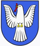 Blazon of Bad Ragaz, Canton of St. GallenEsperanto: Blazono de Bad Ragaz, Kantono de Sankt-Galo